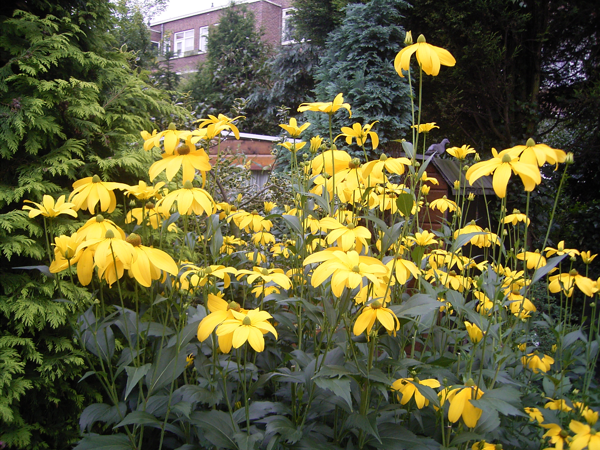 Deze foto toont de Slipbladige rudbeckia. Ik nam deze foto op 20 augustus 2005 in onze tuin. This photo shows Rudbeckia laciniata. I took the photo on Aug 20 2005 in our garden.